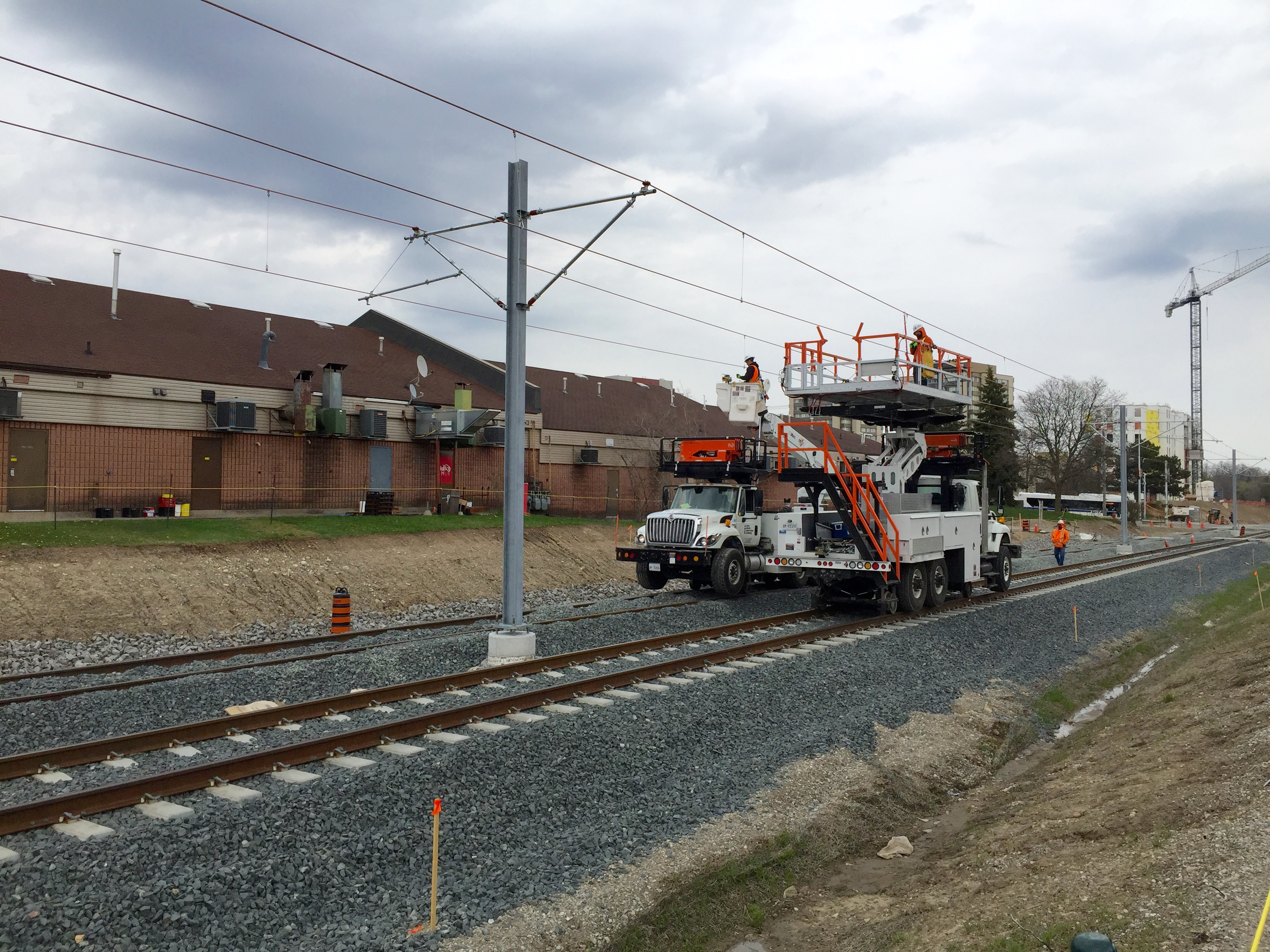 ION transit electrification work near University of Waterloo campus.